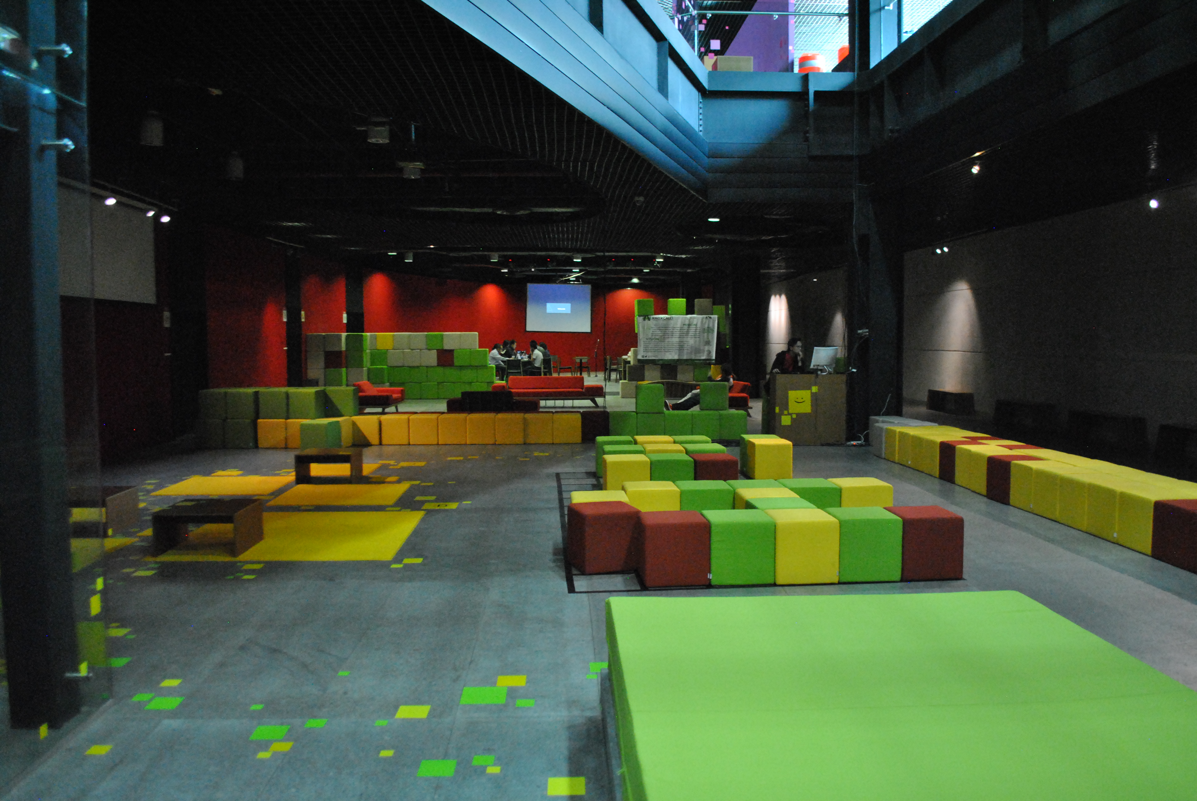 Centro de Cultura Digital Estela de Luz is a cultural center located in the Estela de Luz of Mexico City. It is a multifunctional and multidisciplinary vocation that is conducting activities related to digital art, and the promotion of "forms of expression in the digital world", and "their influence in the cultural and artistic life of the country." It was inaugurated on September 16, 2012.